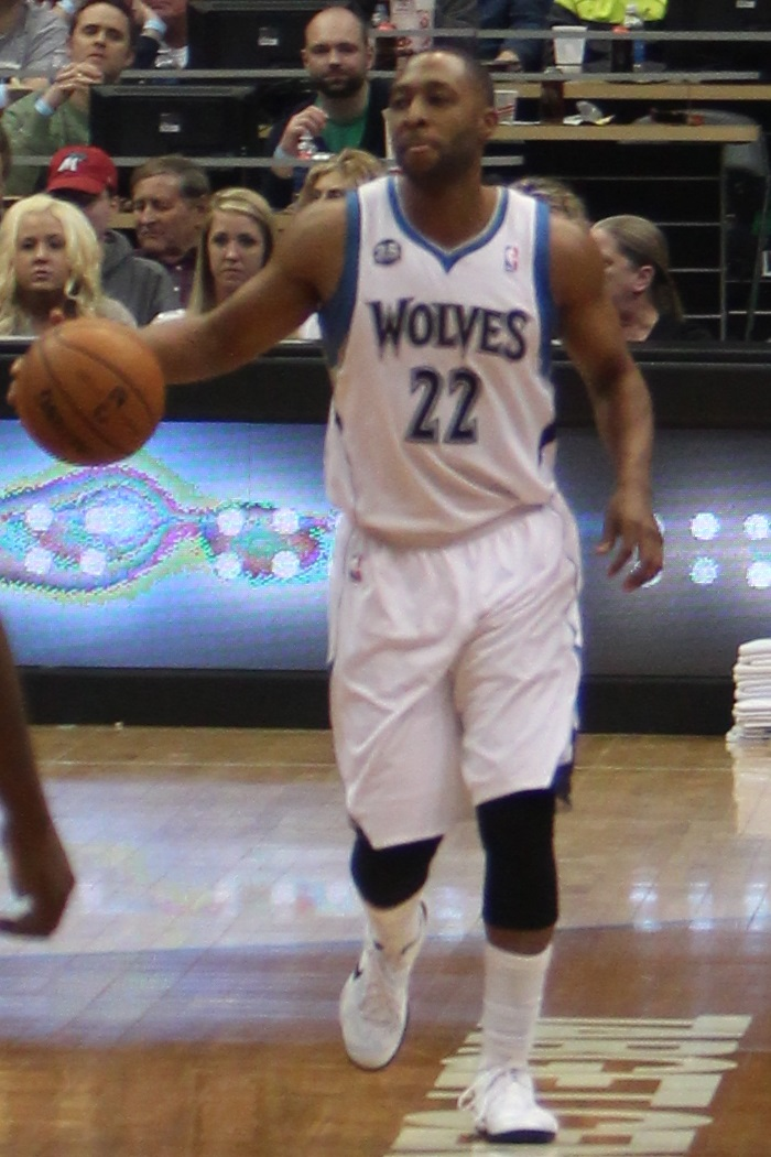 A. J. Price at the Target Center